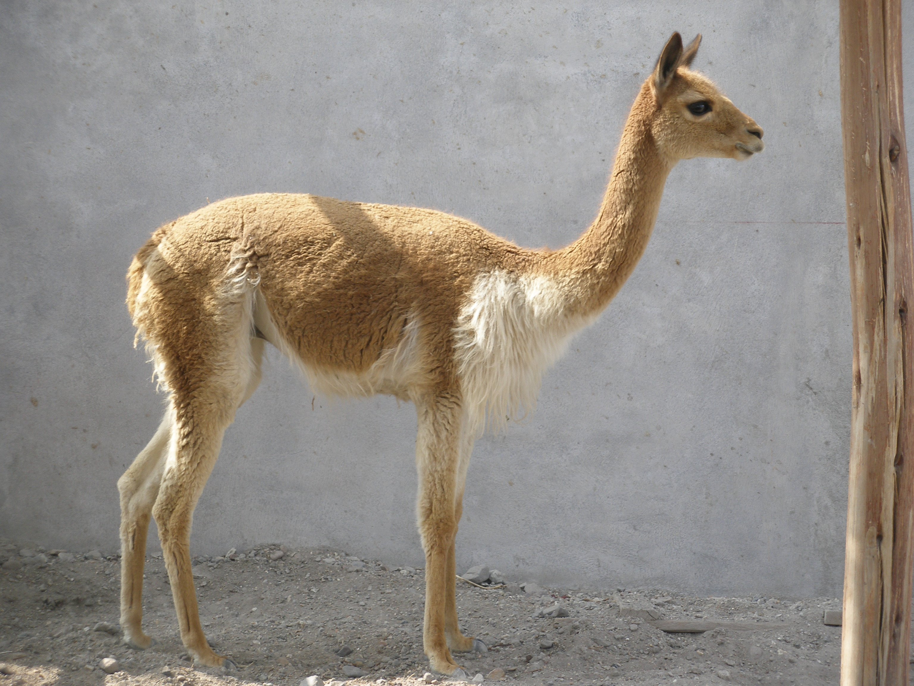 The Vicuna is a wild relative of the camel that was domesticated by native South Americans and bred into the modern Alpaca. The Vicuna has the finest wool of any animal. However, it only yields a handful of wool every two years. A cloak of Vicuna wool will typically sell for $1600. Animals of Peru.